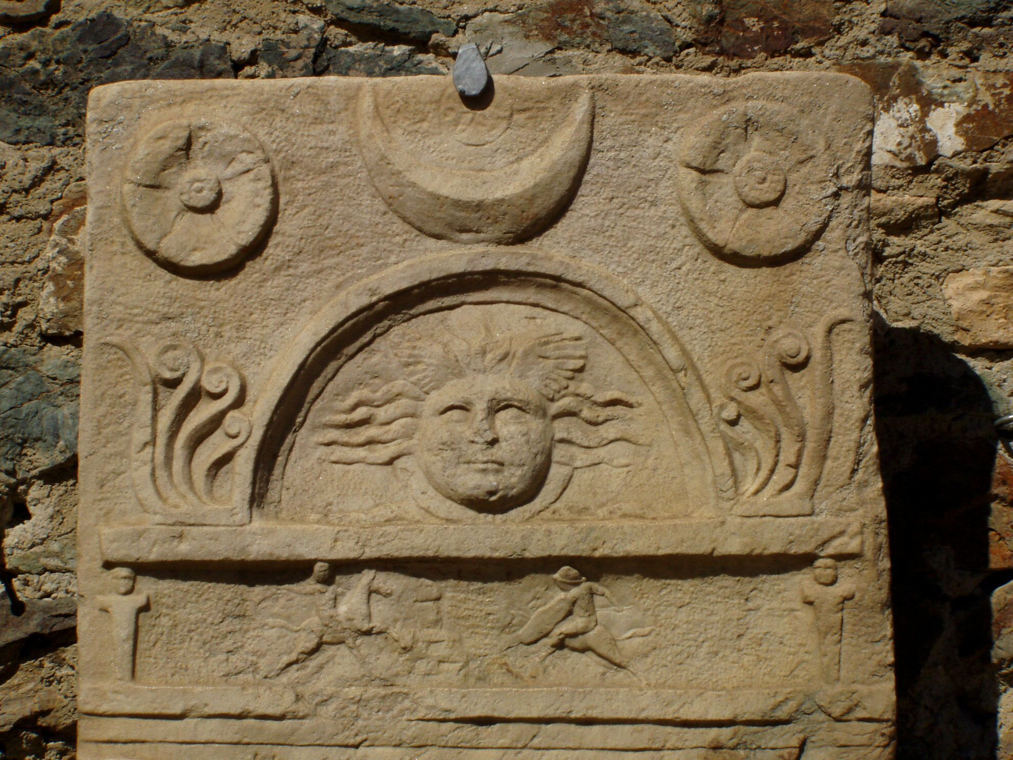 Stadt am Magdalensberg/City on the Magdalensberg